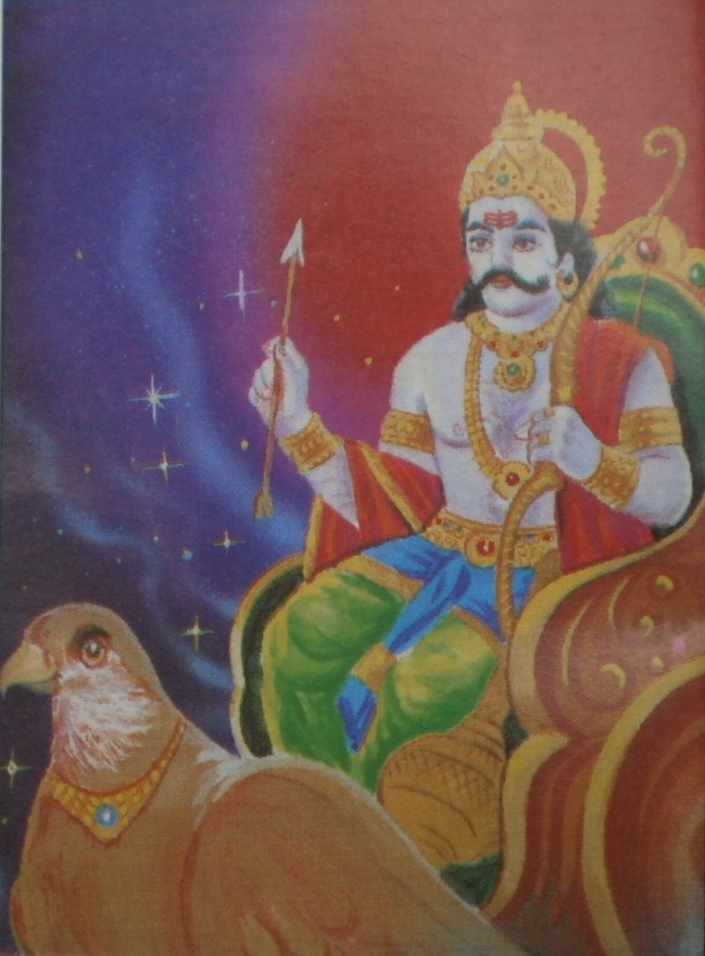 Shani/Sani (Tamil:சனி (Sani), Sanskrit Śani शनि) is one of the Navagraha which are the nine primary celestial beings in Hindu astrology, or Jyotiṣa. Shani is embodied in the planet Saturn. Shani is the Lord of Saturday; the word Shani also denotes the seventh day or Saturday in most Indian languages.